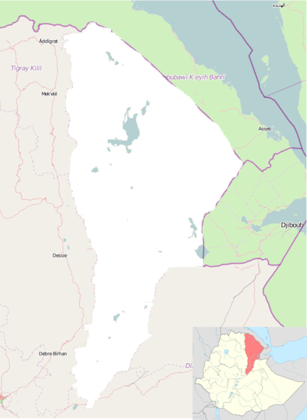 Map of Afar Region, Ethiopia Geographic limits of the map: N: 14.86° S: 8.71° W: 38.73° E: 43.32°